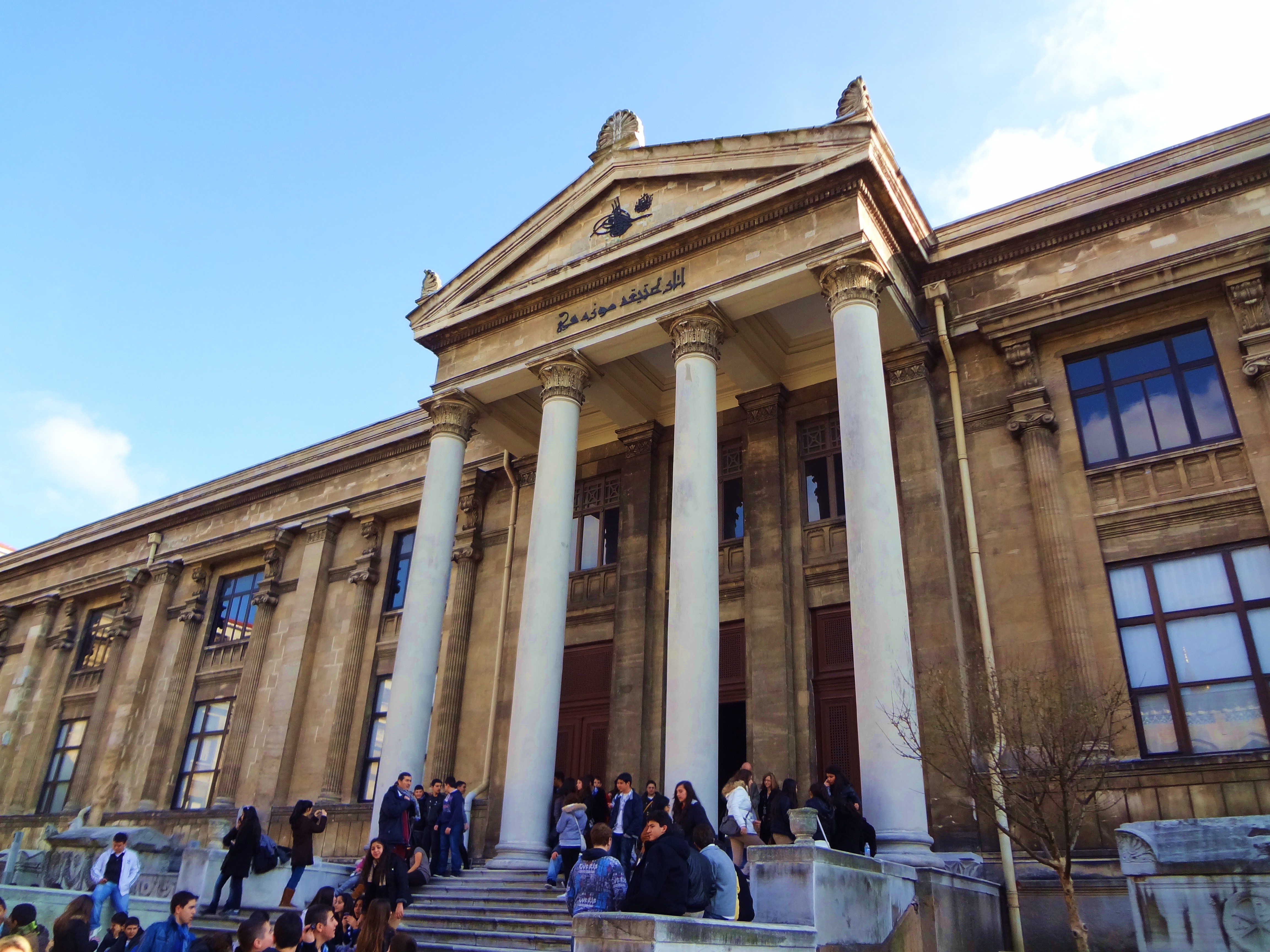 The entrance of the İstanbul Arkeoloji Müzeleri